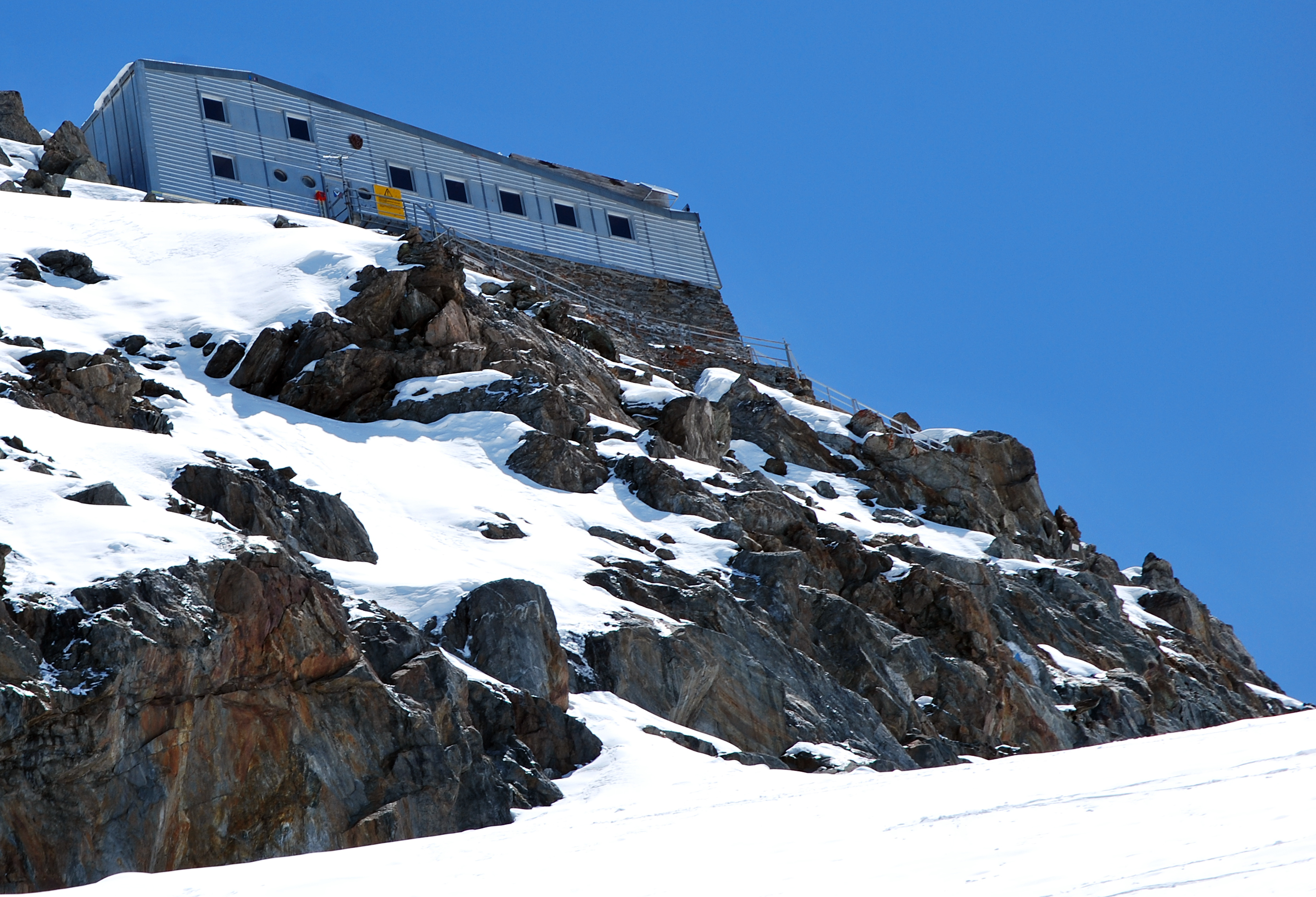 Refuge des Grands Mulets, Montblanc, NW